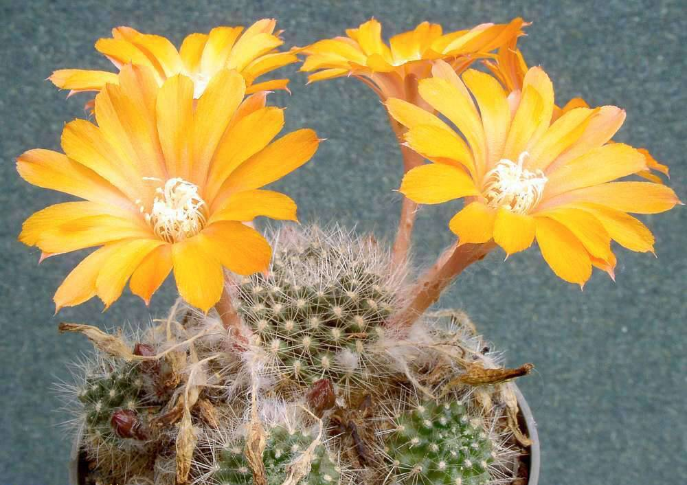 Rebutia fiebrigii (R. flavistyla) cultivated plant from own collection.